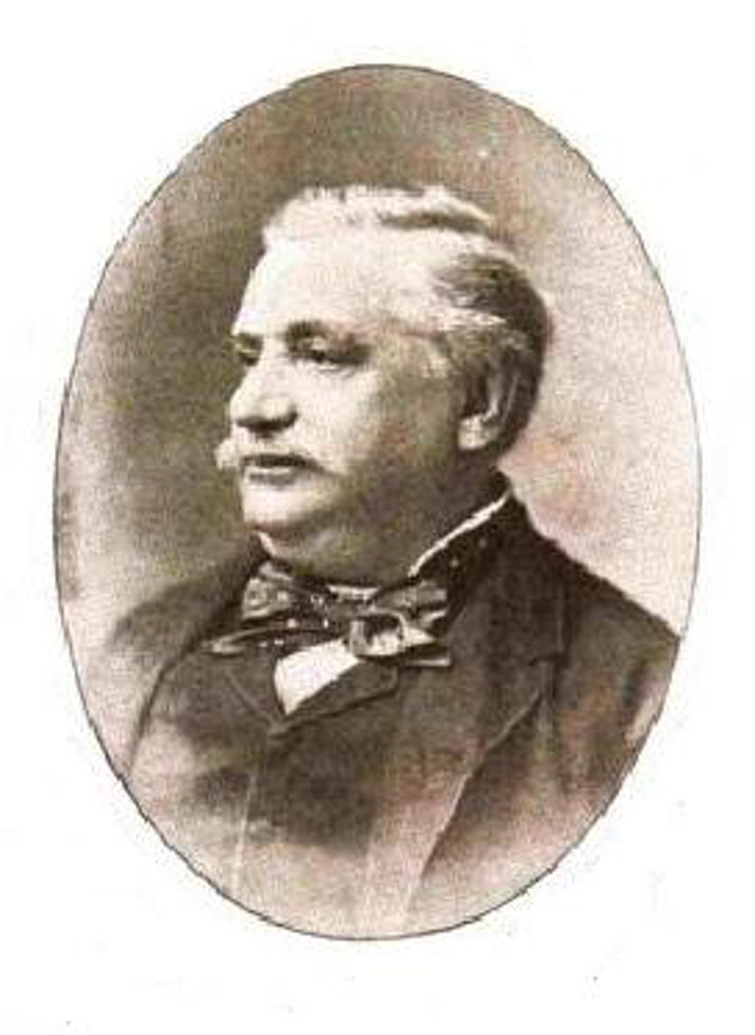 Image of Charles Ranhofer taken from the flyleaf of his book, The Epicurian. (Published 1894, Ranhofer died 1899.)